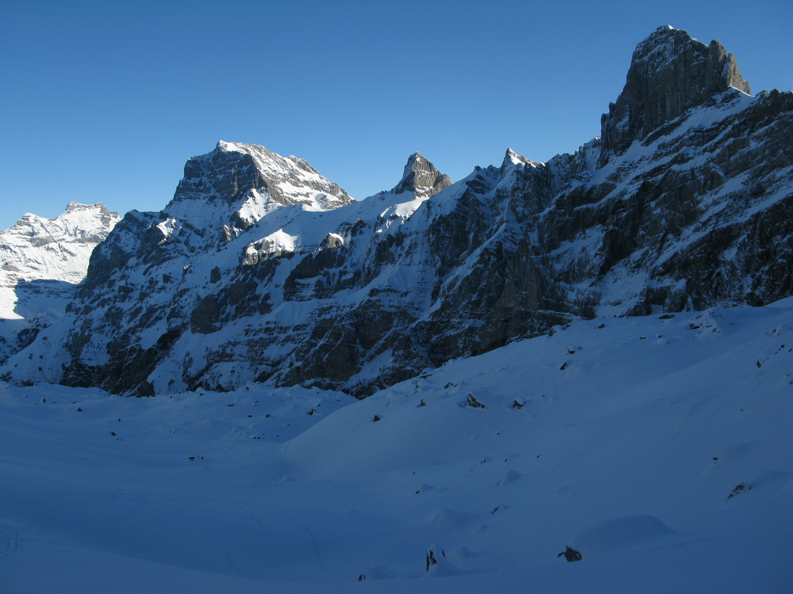 View from the Vallon de Nant (Vaud). From left to right: Grand Muveran, Petit Muveran (centre), Dent Favre. The Diablerets is also visible on the far-left.